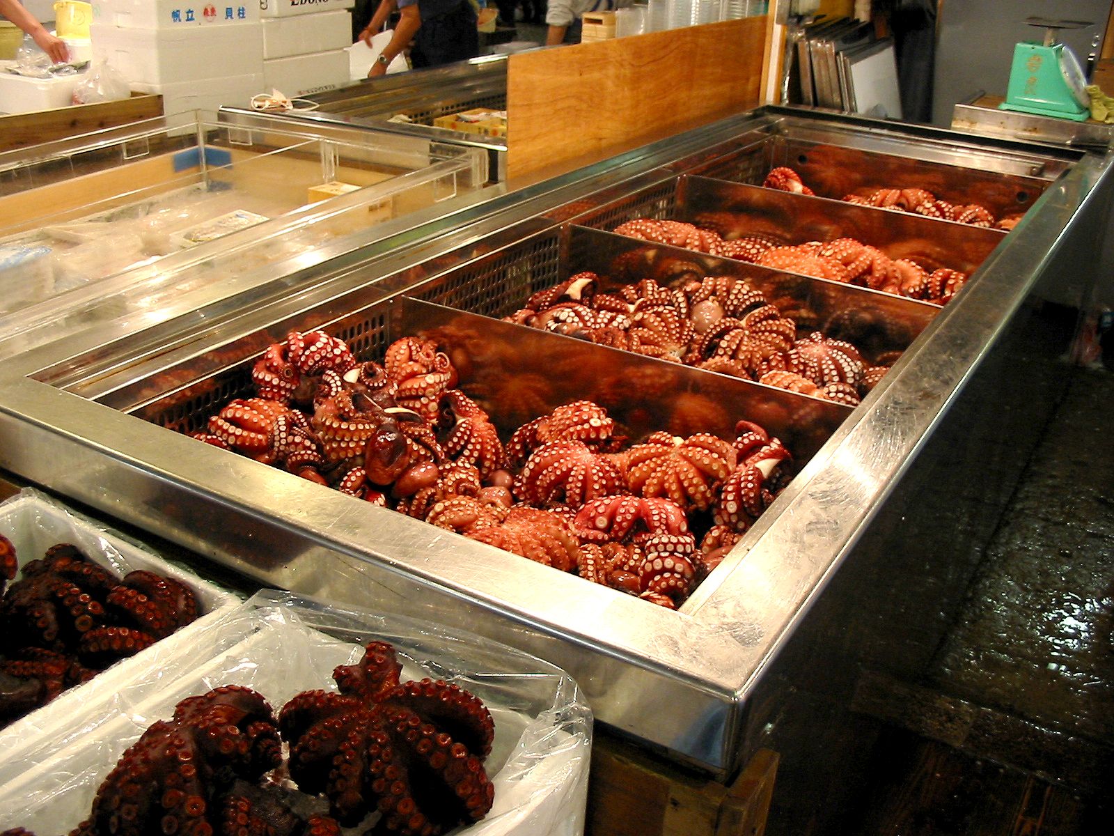 Octopuses for sale in Tsukiji fish market, in Tokyo.